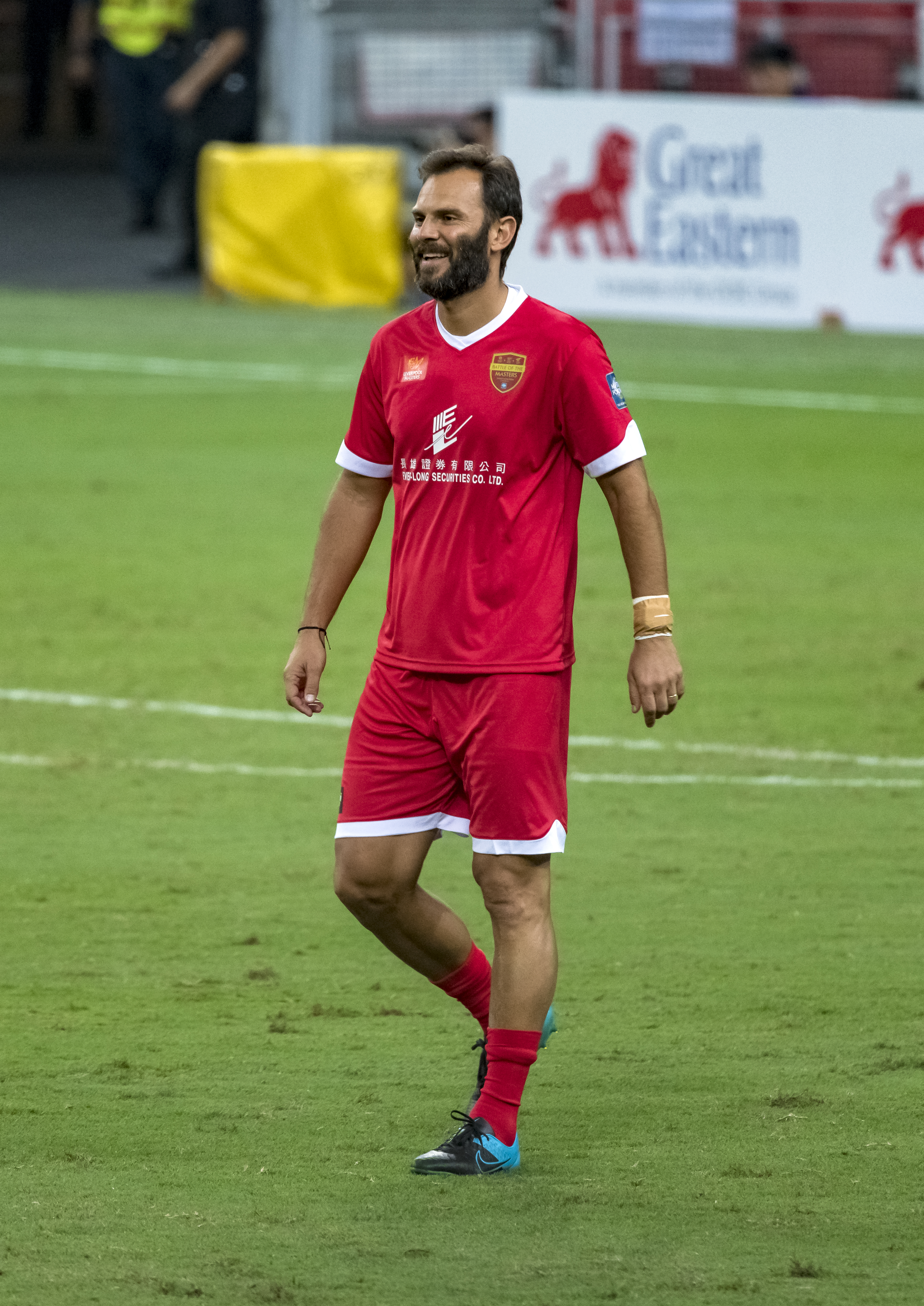 patrik berger liverpool masters singapore national stadium 2017